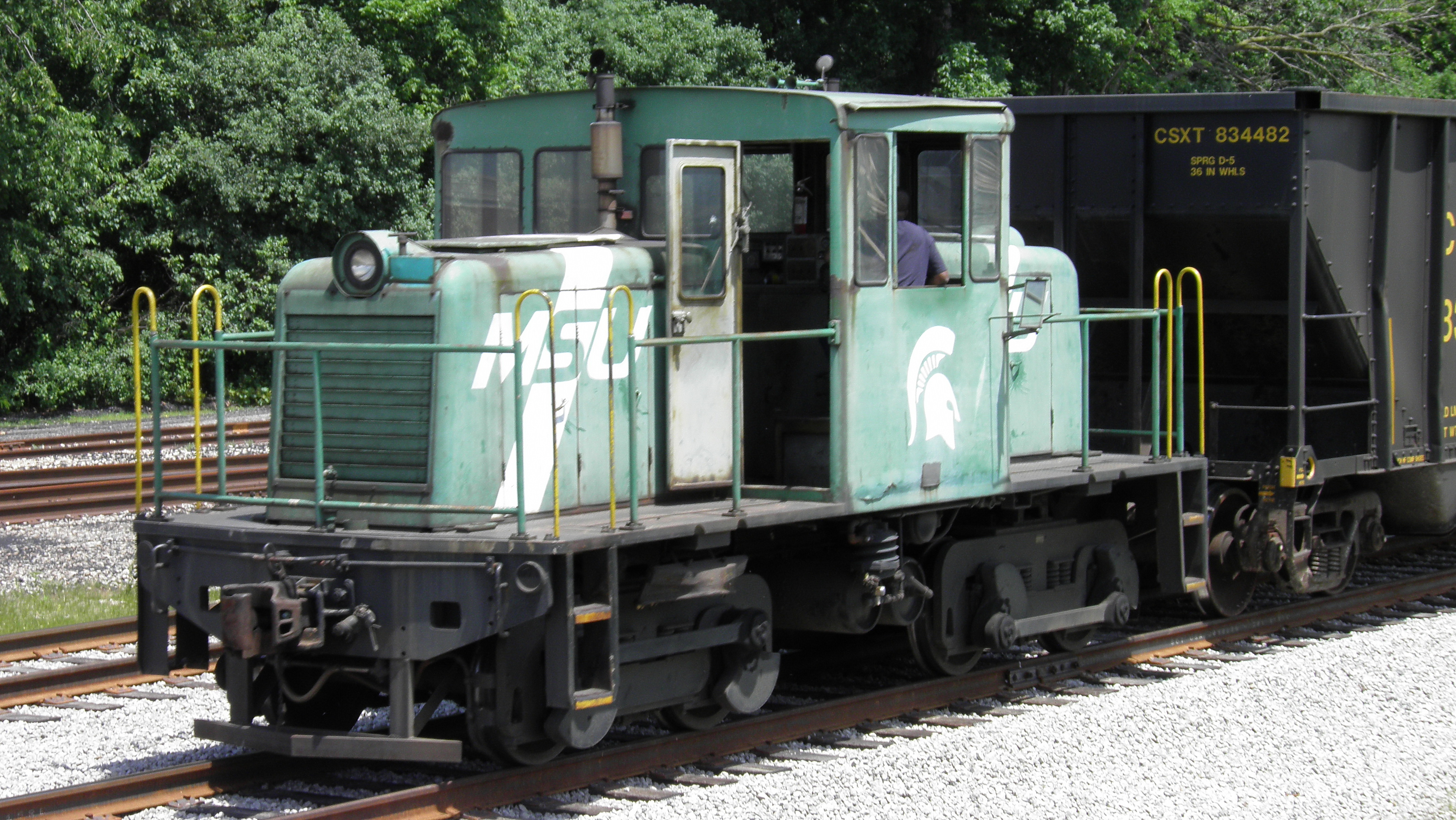 Still in daily use as of June 2011, this WWII-era yard locomotive is used to position cuts of coal cars on rail leads through the T. B. Simon Power Plant.